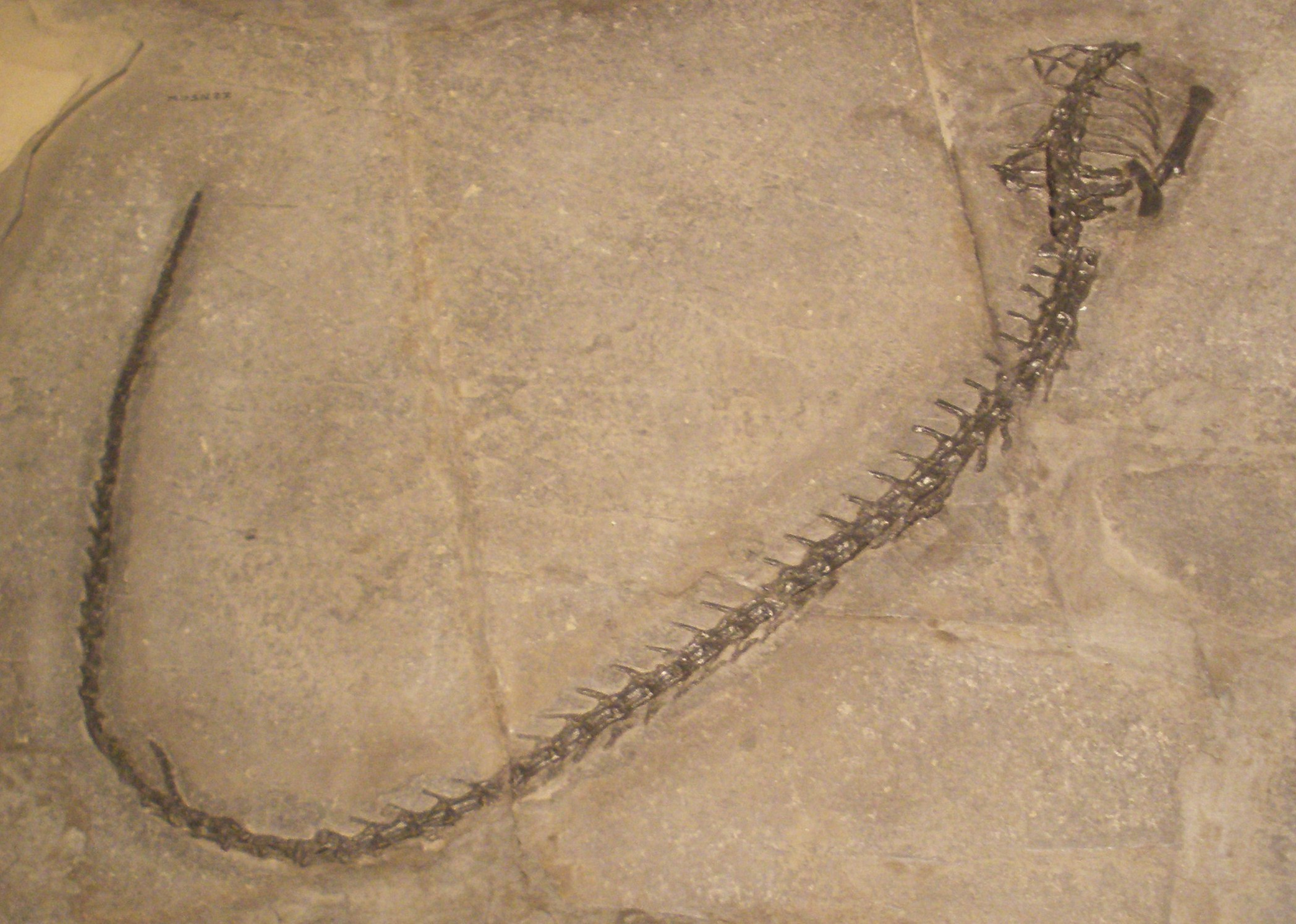 Fossil of Endennasaurus acutirostris, an extinct reptile